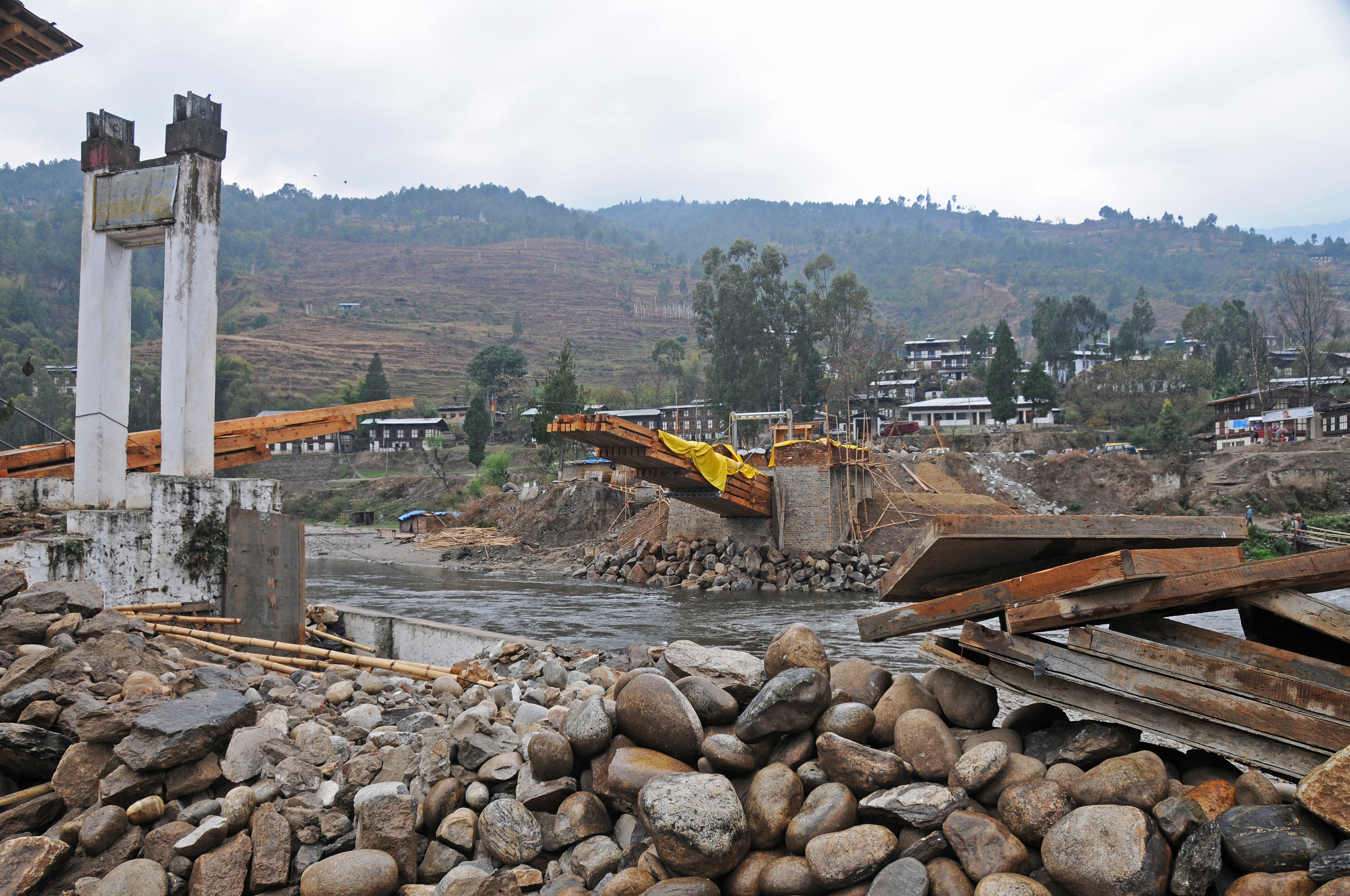 Bhutan, Punakha Dzong - new bridge under construction